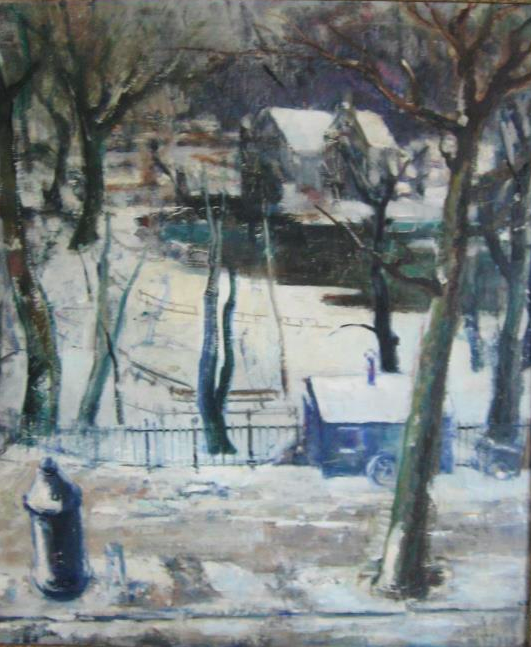 Samuel "Mommie" Schwarz, Gezicht op het Sarphatipark (View of Sarphatipark)), oil on canvas 1942